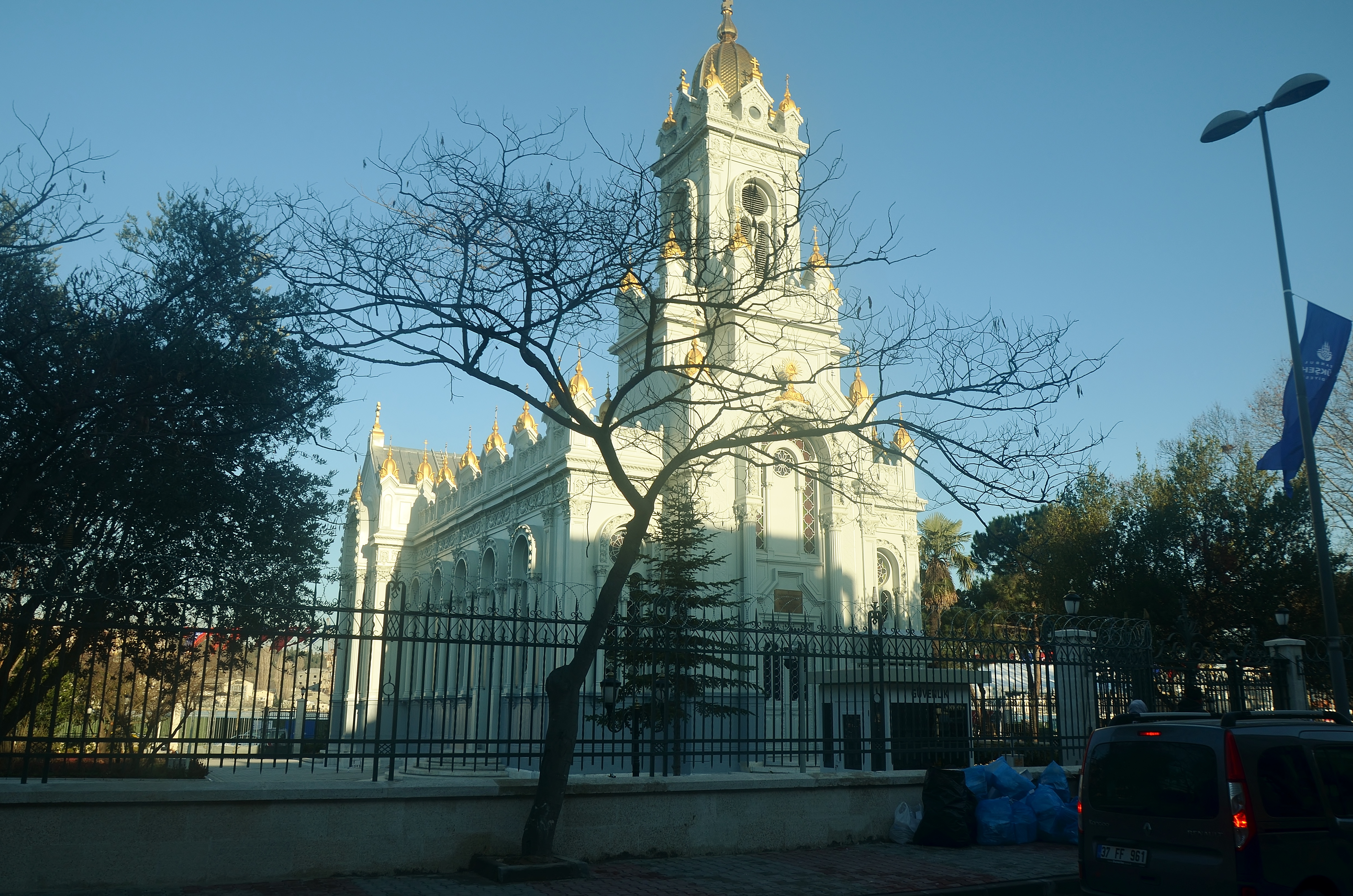 Sveti Stefan Church, aka the Iron Church, in Fener neighborhood of Fatih, Istanbul, Turkey on the day of inauguration after seven years of restoration financed by the Metropolitan Municipality of Istanbul.